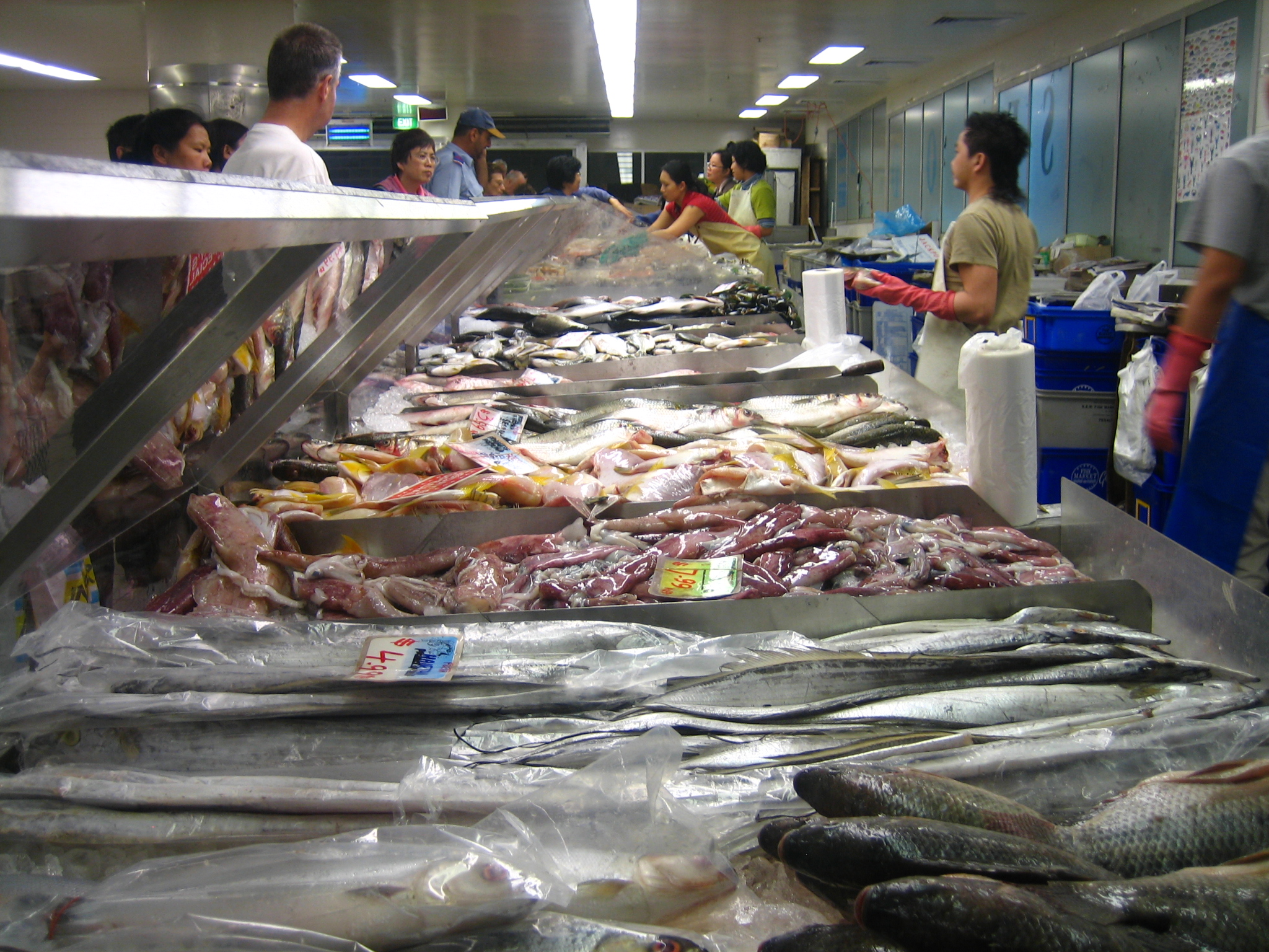 The fish market in Sydney Chinatown.